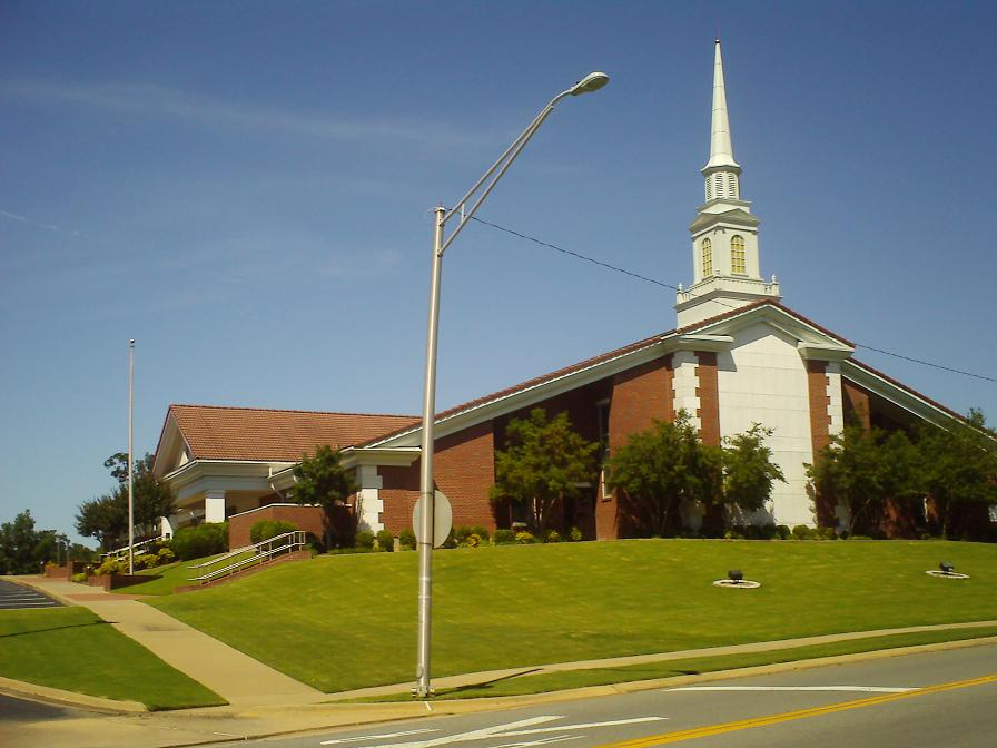 The North Little Rock Stake Center of The Church of Jesus Christ of Latter-day Saints (LDS Church). This building serves as the Stake Center for the North Little Rock Stake, the meetinghouse for the North Little Rock Ward, and the mission office for the Arkansas Little Rock Mission.